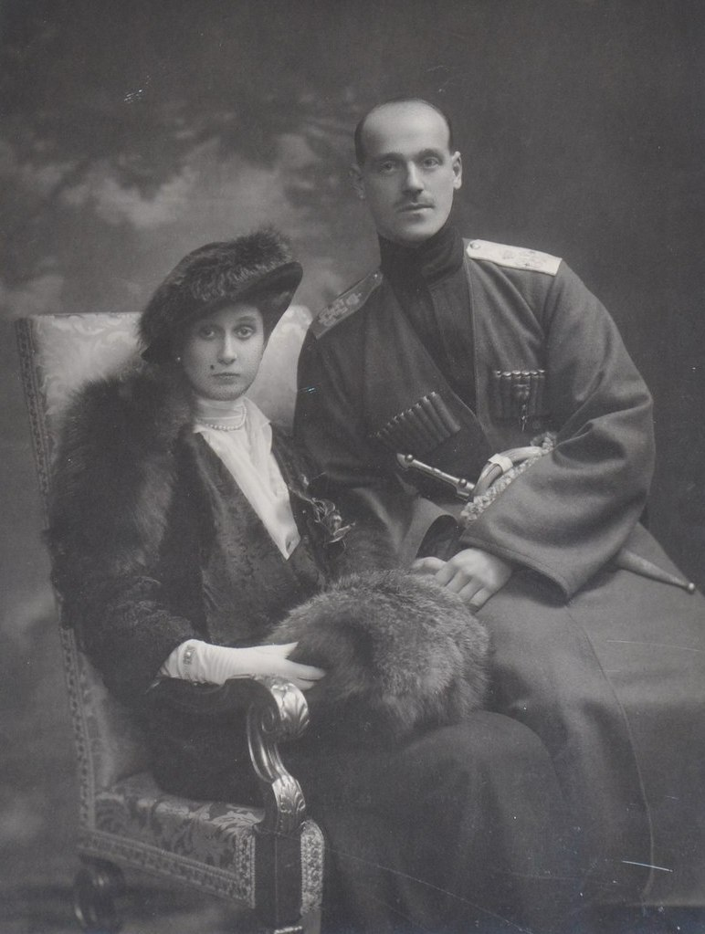 Grand Duke Michael Alexandrovich of Russiaq and Natalia Brassova